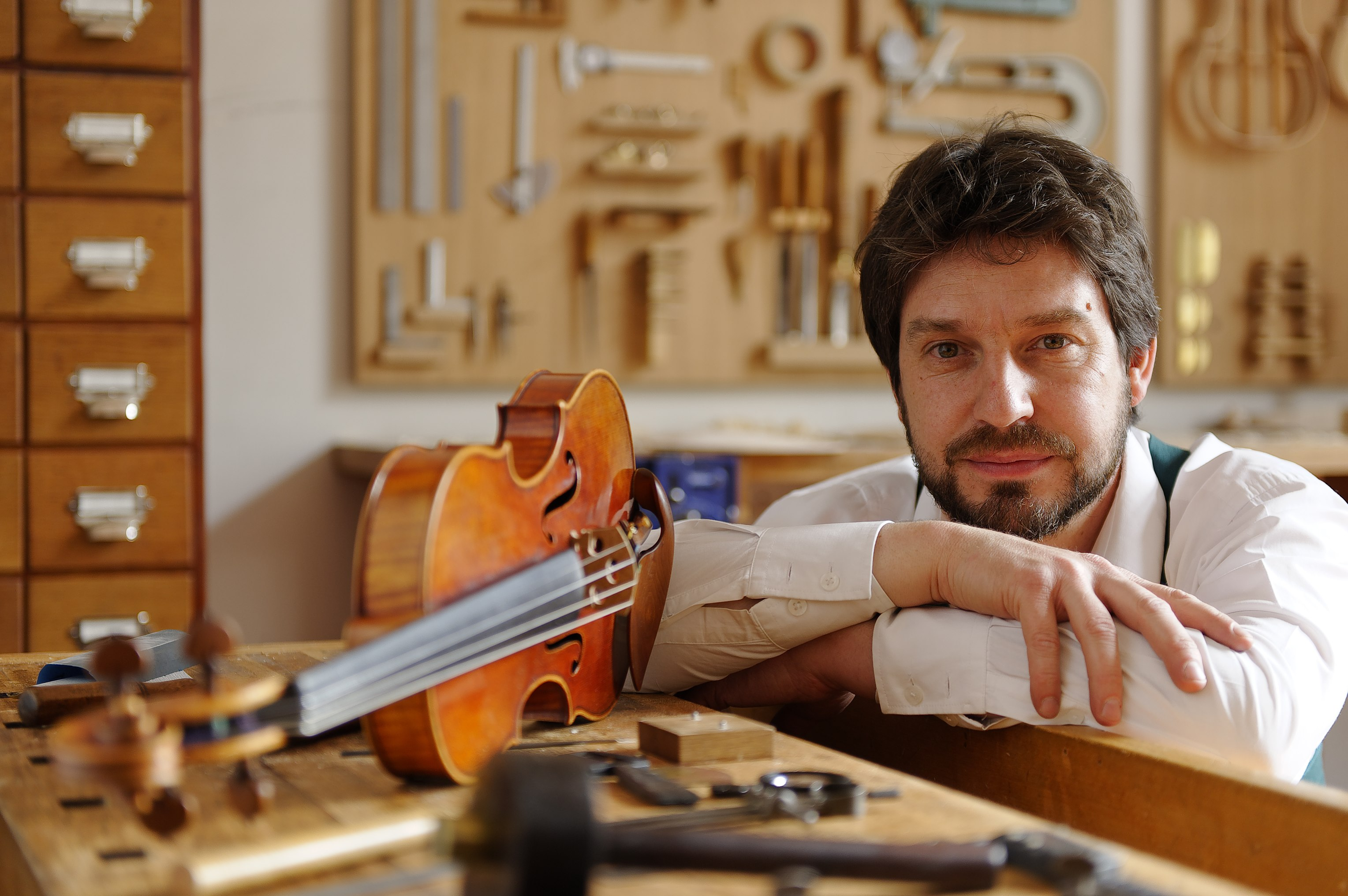 Portrait Thomas Meuwissen